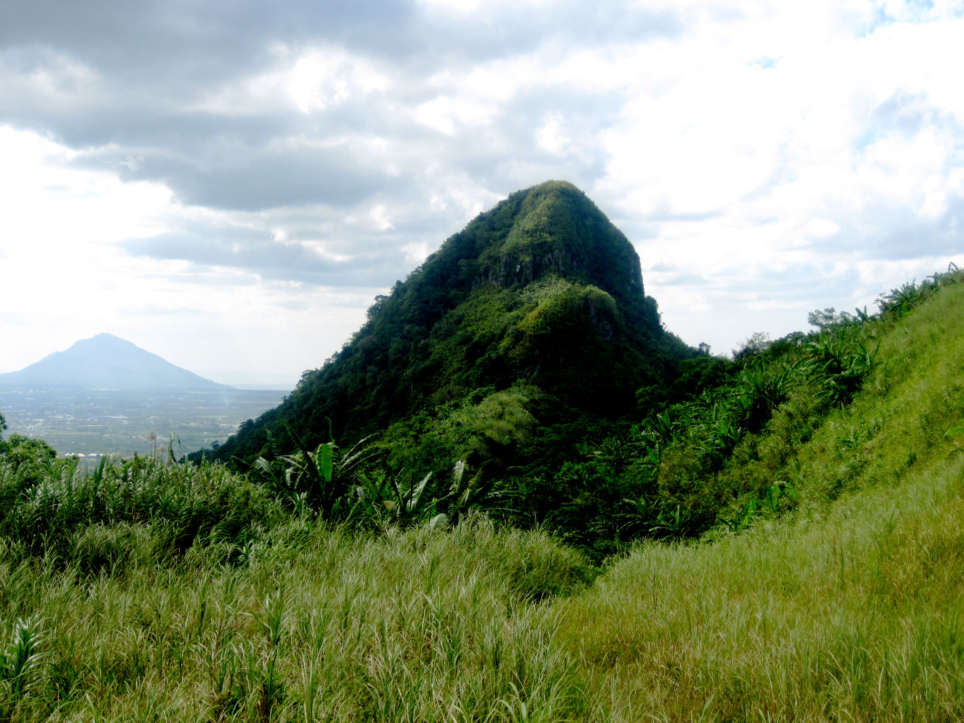 Bagwis Cliff is a 710-m cliff situated inside the Malepunyo Mountain Range of Lipa City, Batangas. Also known as Susong-Cambing or Susong Dalaga. At the back is Mt. Macolod of Cuenca, Batangas. Shot during the mapping expeditions of Schadow1 Expeditions for the Manabu to Malipunyo traverse trail.